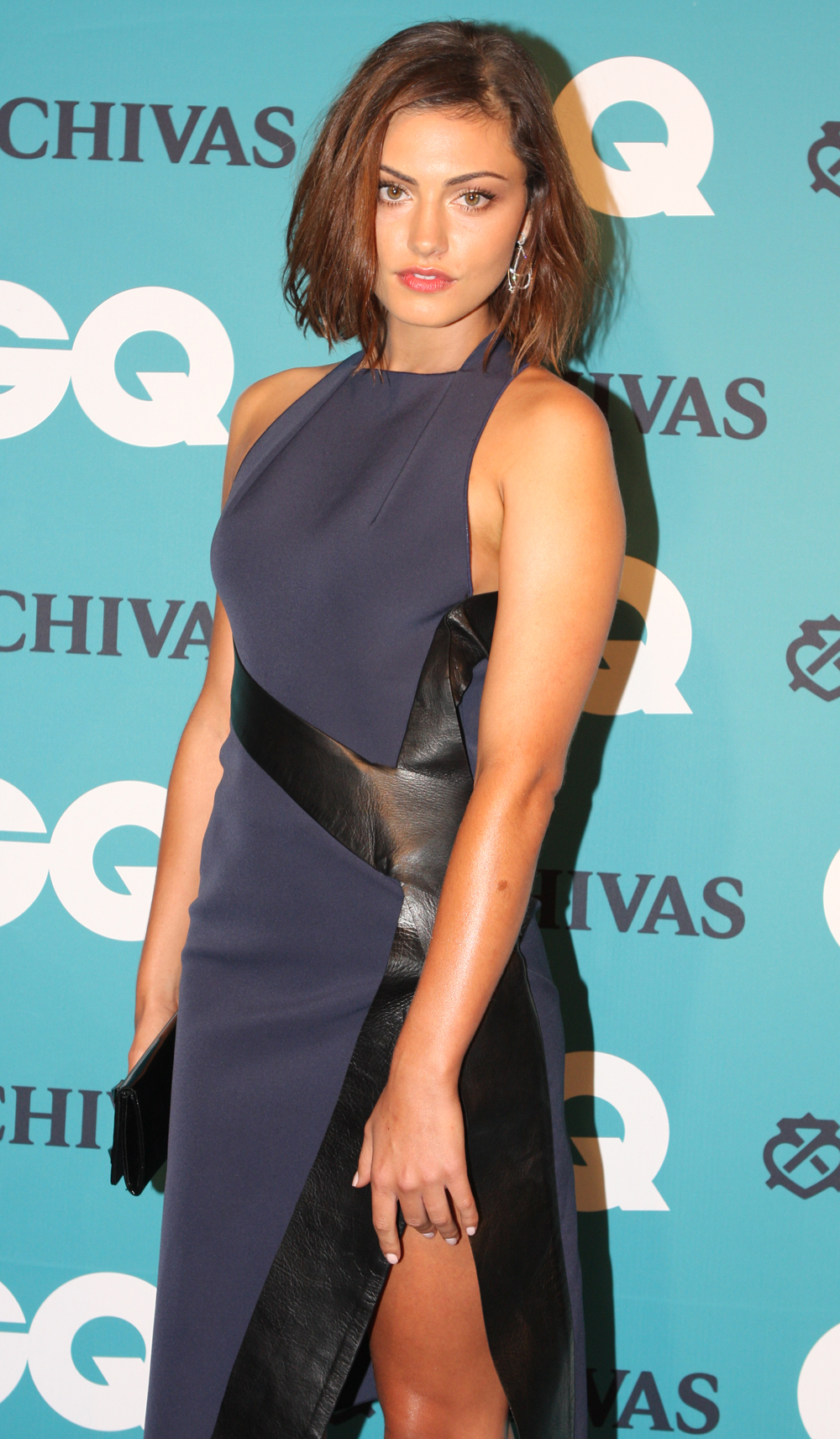 Phoebe Tonkin at the GQ Men Of The Year Awards 2012